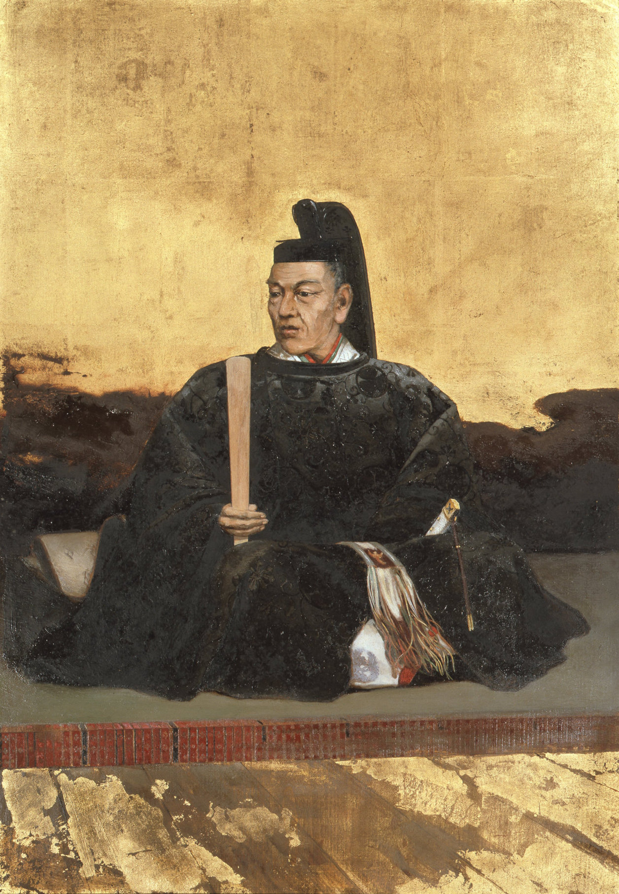 Tokugawa Yoshimune, by Kawamura Kiyoo, Tokugawa Memorial Foundation